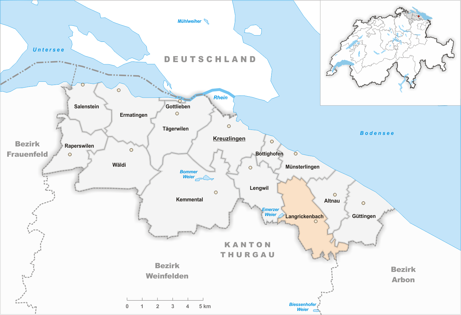 Municipality Langrickenbach